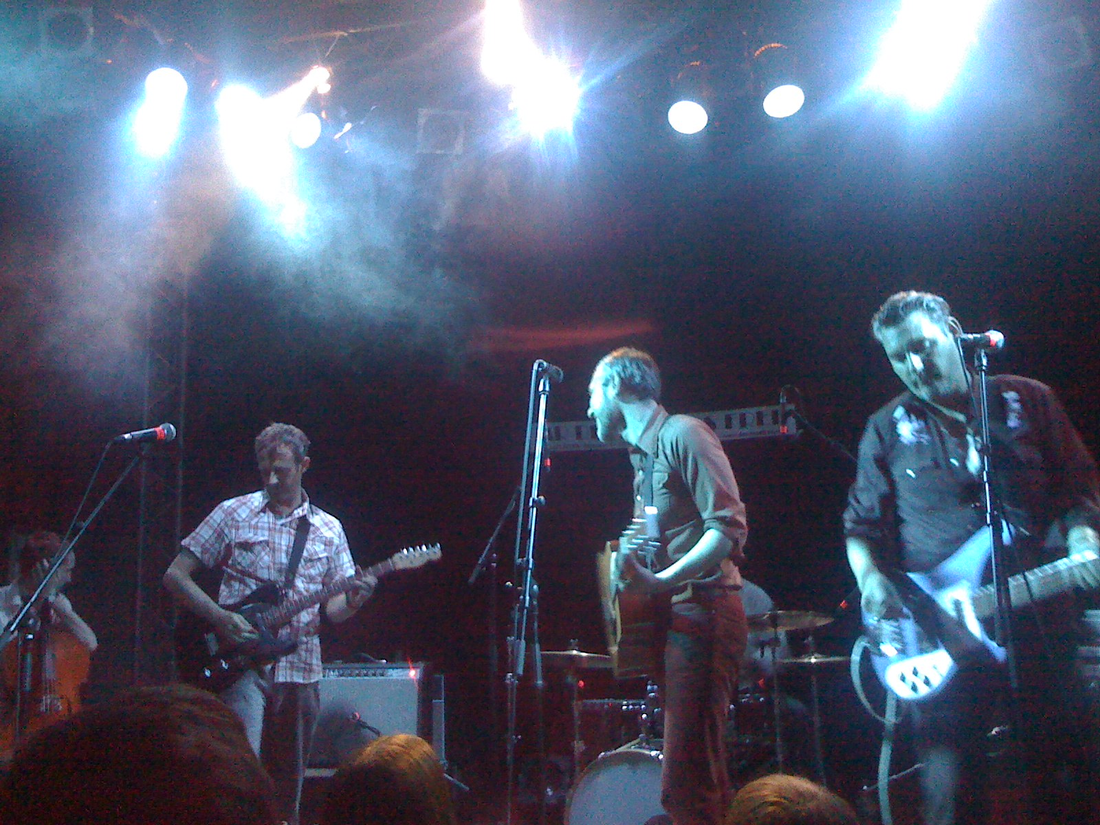 Picture of the british band "Palm Springs" during their concert in the Berlin club Lido on May 31st, 2008. The concert took place to celebrate the 25th birthday of the Berlin based record store "Mr Dead and Mrs Free". The picture was taken with an iPhone.